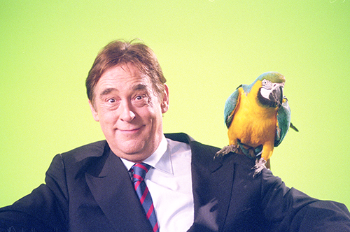 Gert-Jan Dröge with a Blue-and-Yellow Macaw (Ara ararauna) on his right shoulder.